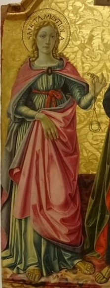 Saint Mustiola with the wedding ring of Virgin Mary. Detail of the Triptych of Justice, originally in the Church of Santa Mustiola in Perugia, now in the Galleria Nazionale, Perugia